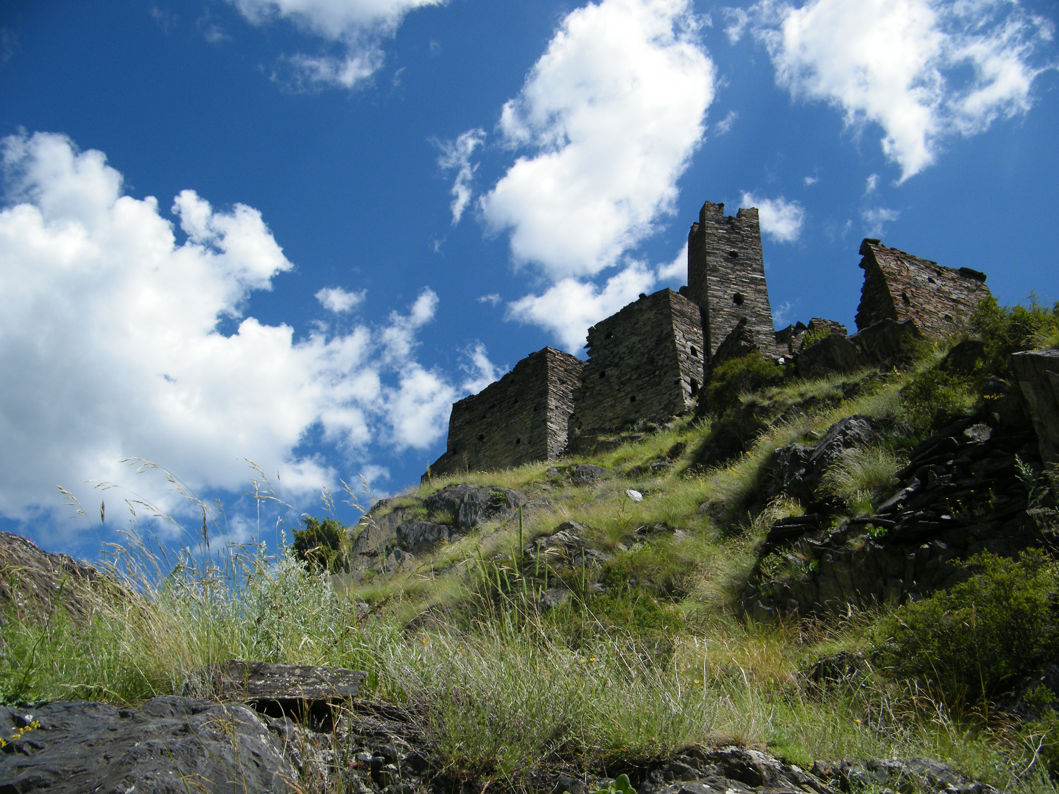 The village of Mutso in Georgia.